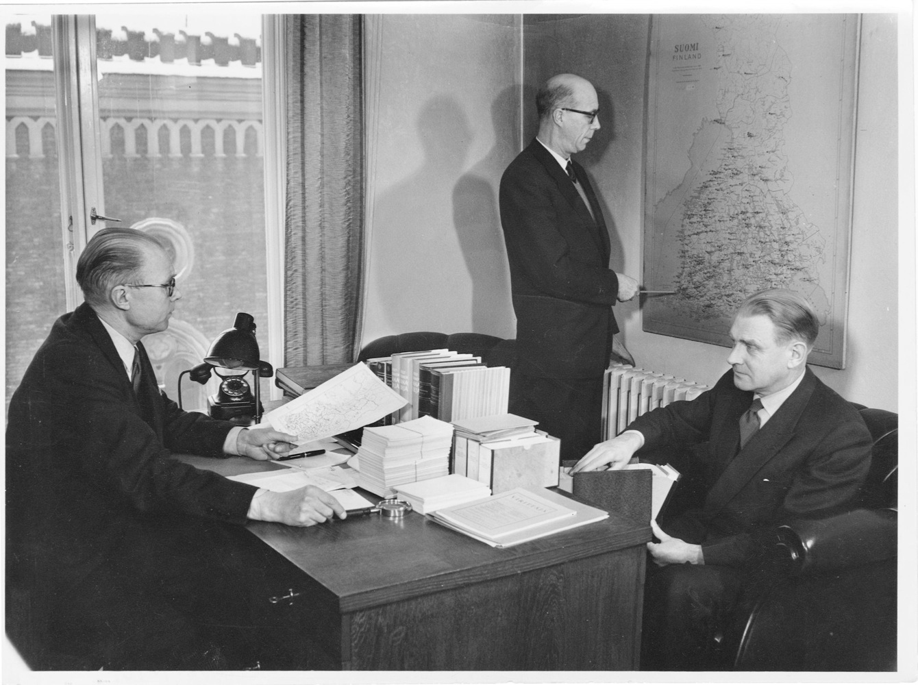 Photograph of three Finnish linguists, from the left: Lauri Hakulinen (1899–1985), Veikko Ruoppila (1907–1993) and R. E. Nirvi (1905–1986).